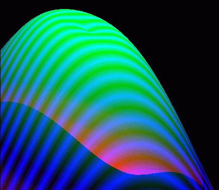 Irfanview dithering test